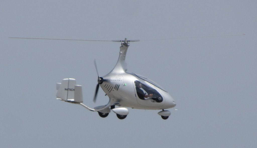 Auto Gyro Cavalon